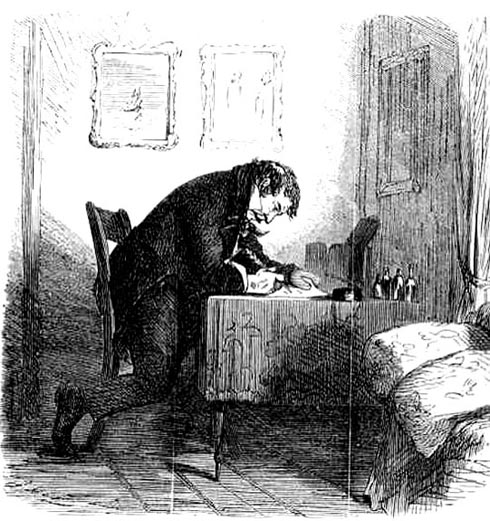 Great Expectations, Joe Gargery is learning to read, by John McLenan (1861).